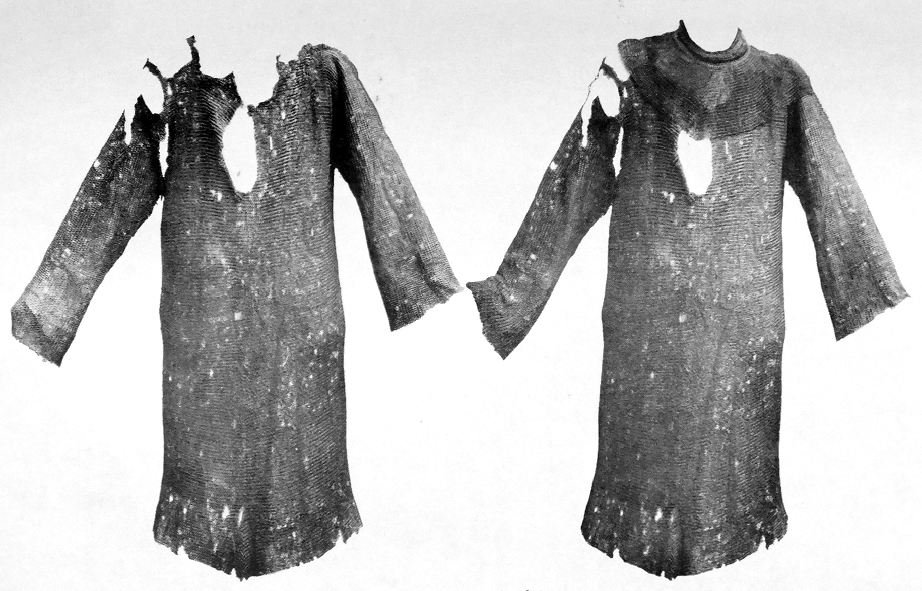 The chainmail of St. Wenceslas without a collar (left) and with a collar (right).